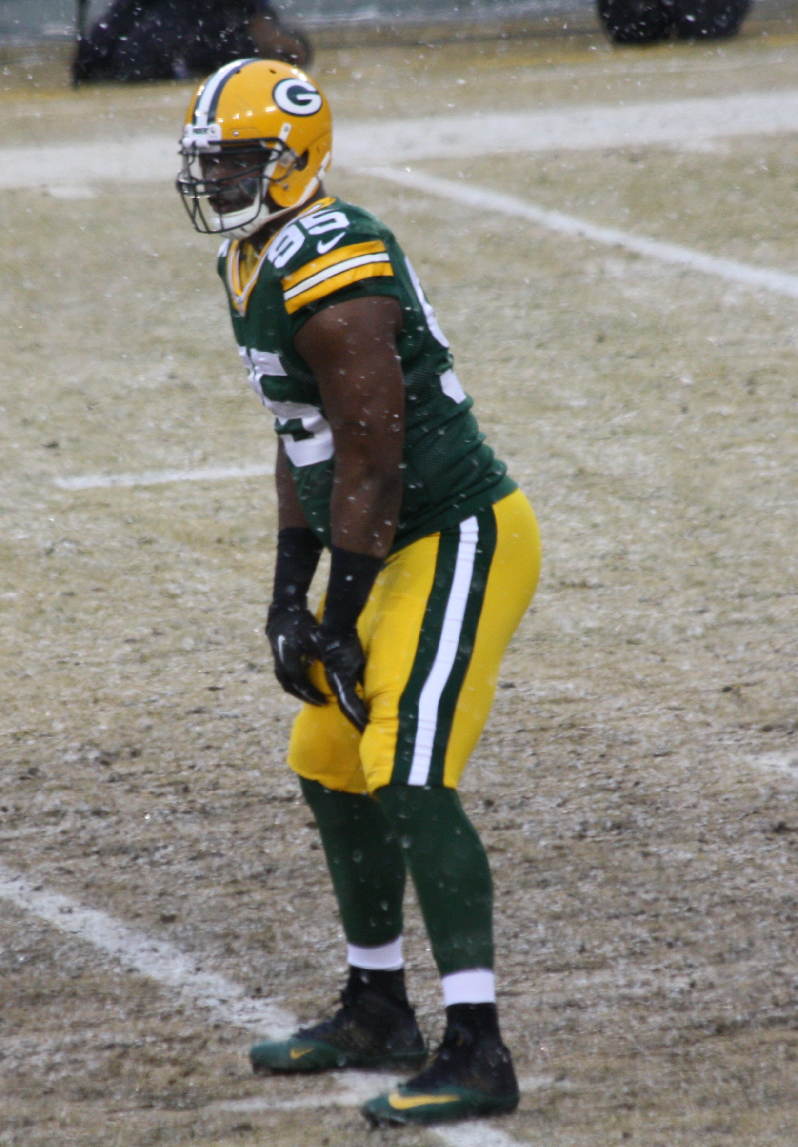 Green Bay Packers player Datone Jones lined up on defense against the Pittsburgh Steelers.